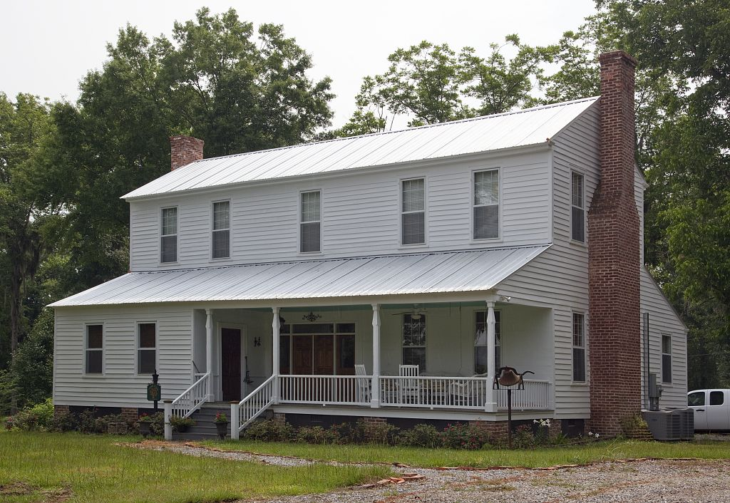 Moss Hill historic home near Pine Apple, Alabama.